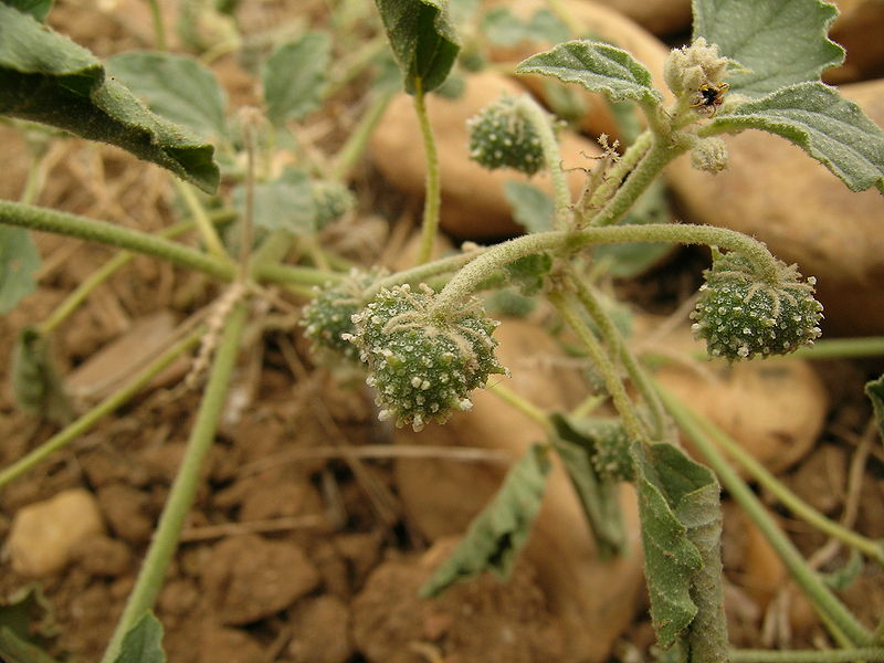 Chrozophora tinctoria